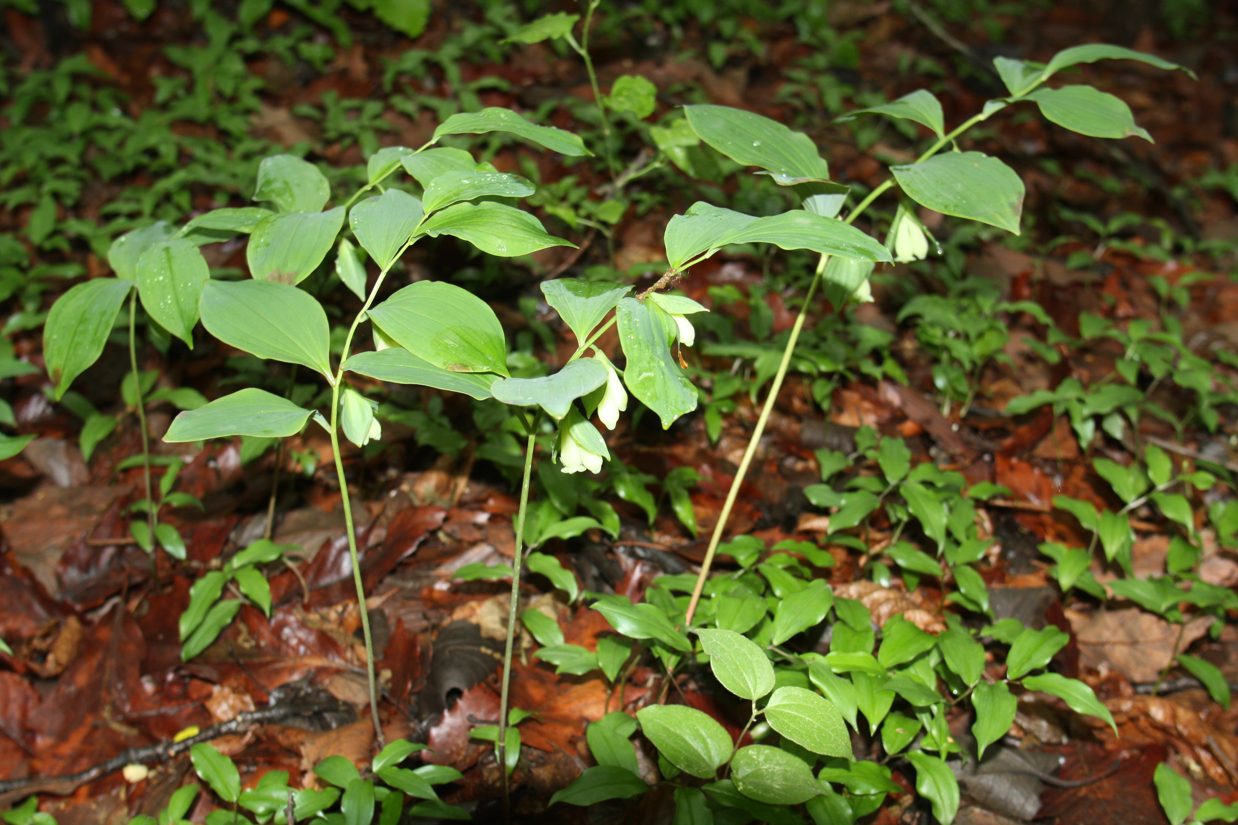 Polygonatum involucratum